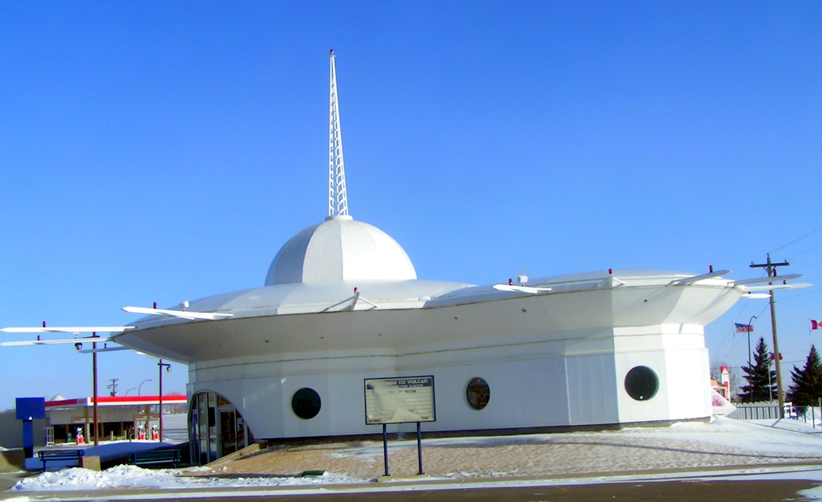 Visitor centre in the town of Vulcan, Alberta, Canada